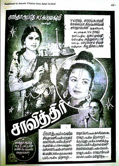 A poster of the film Savithri (1941)